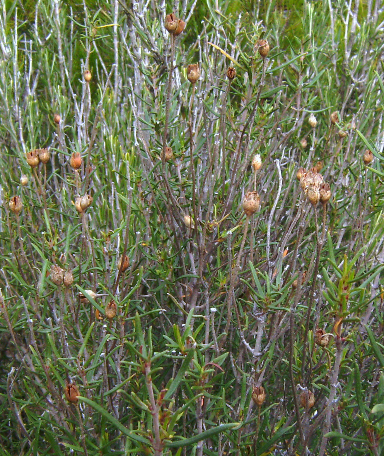 "Cistus clusii" seed boxes, Castelltallat, Catalonia